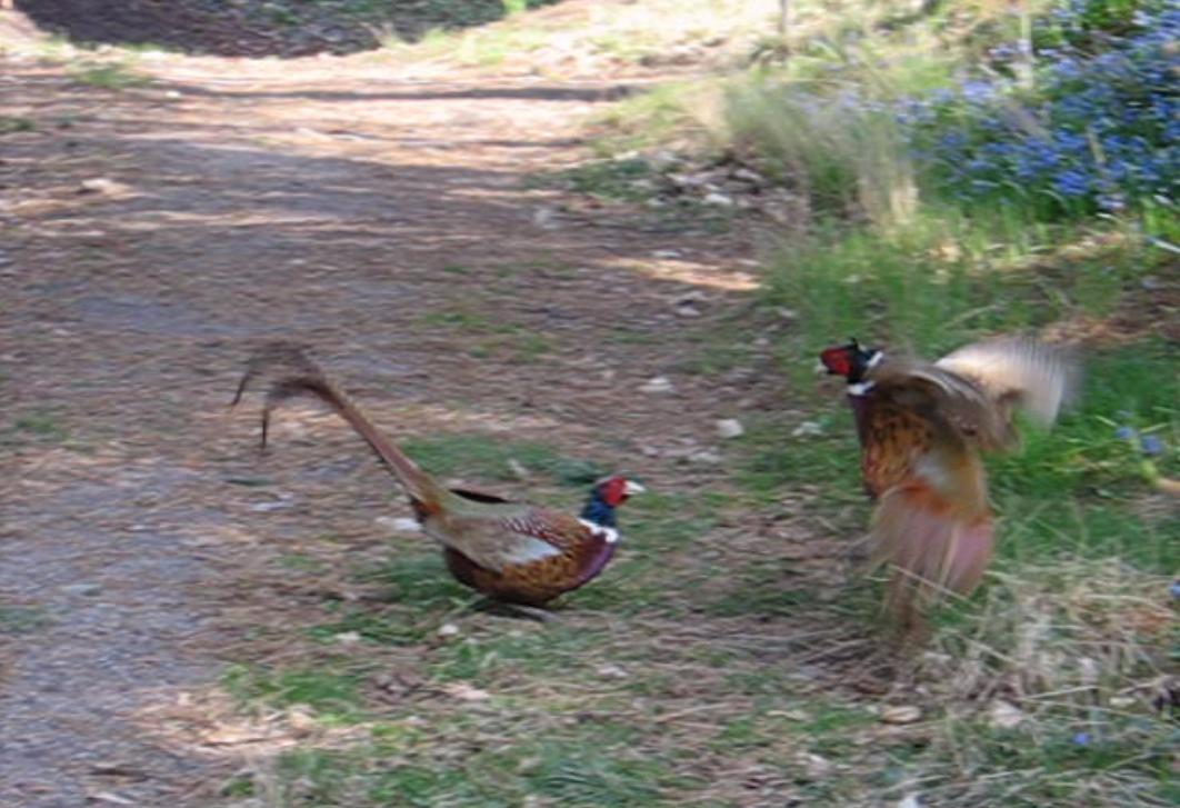 two fighting pheasants in spring